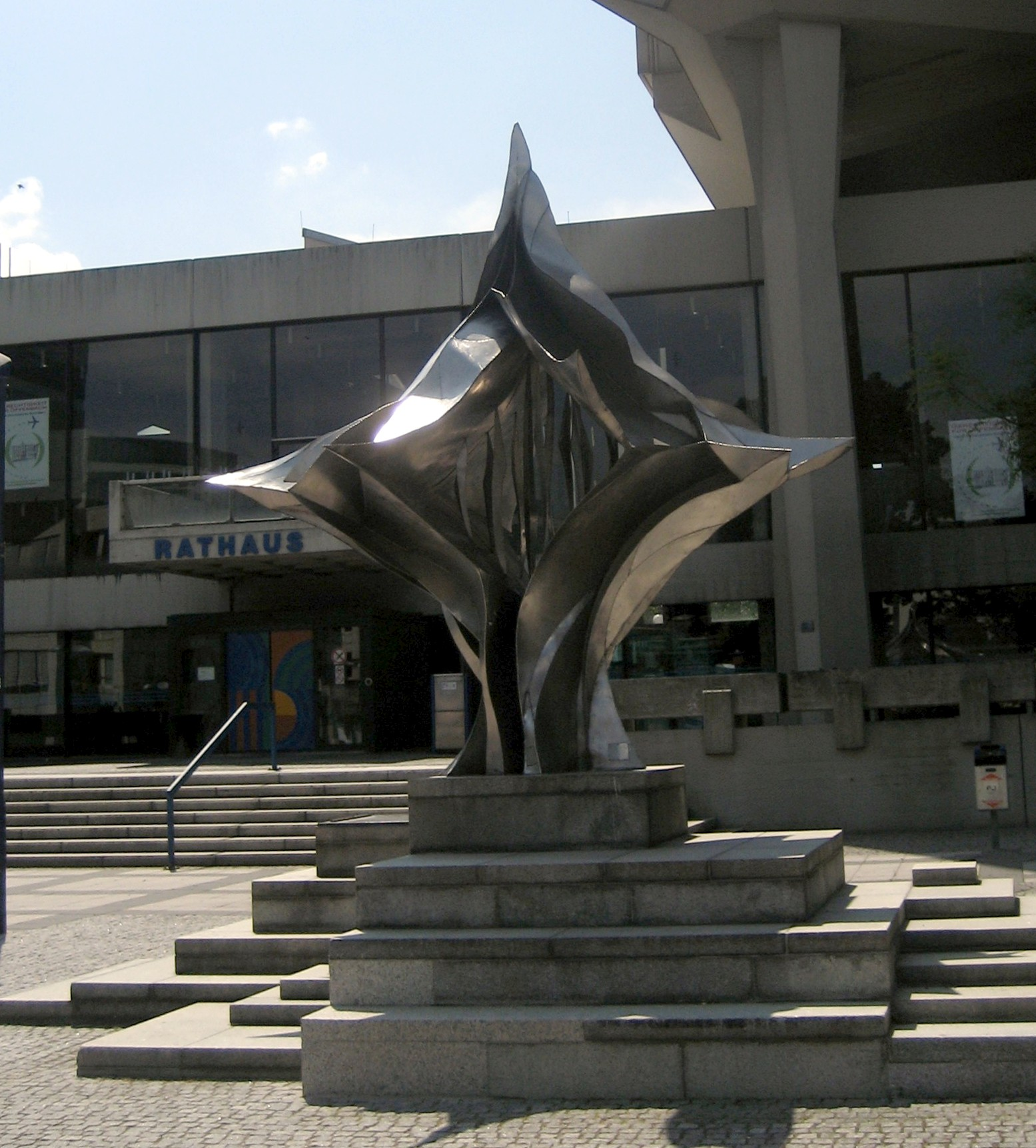 Sculpture made by Bernd Rosenheim in front of the city hall in Offenbach